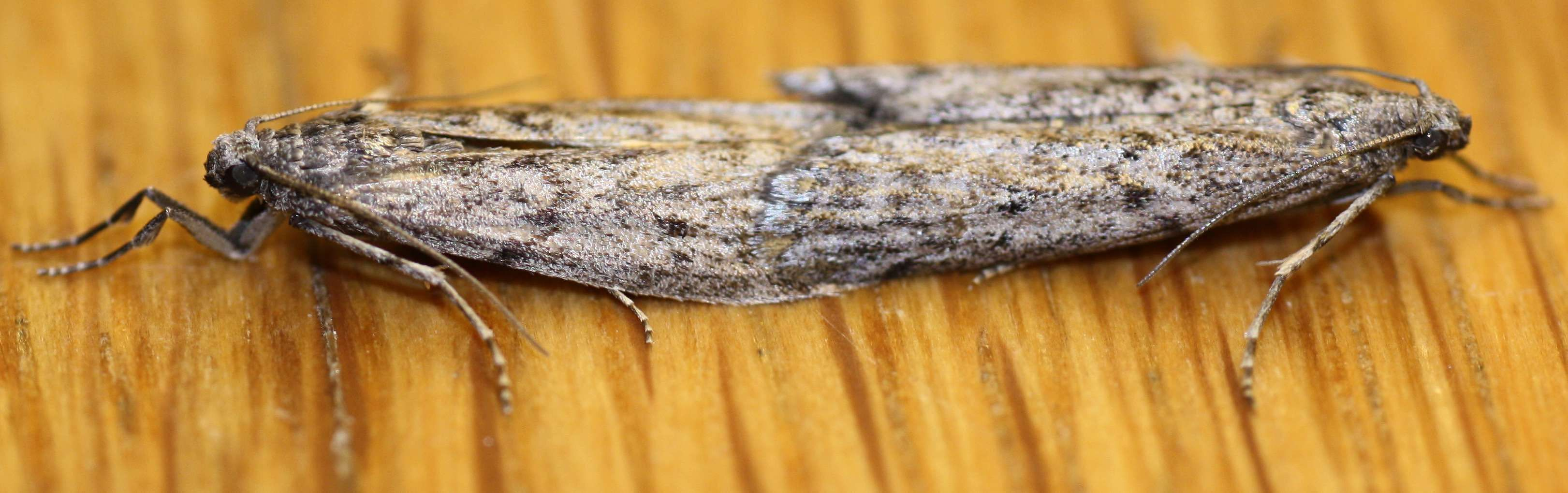 Mediterranean Flour Moth Ephestia kuehniella mating, a grain- or flour-feeding pest.Template:Byline